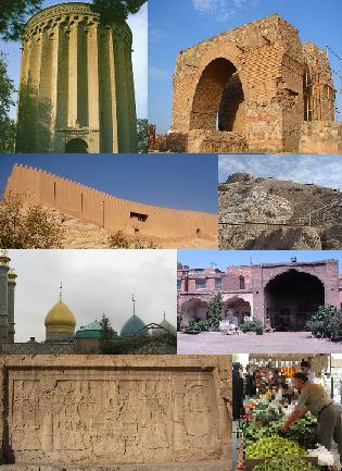 Photos of Rey, Iran